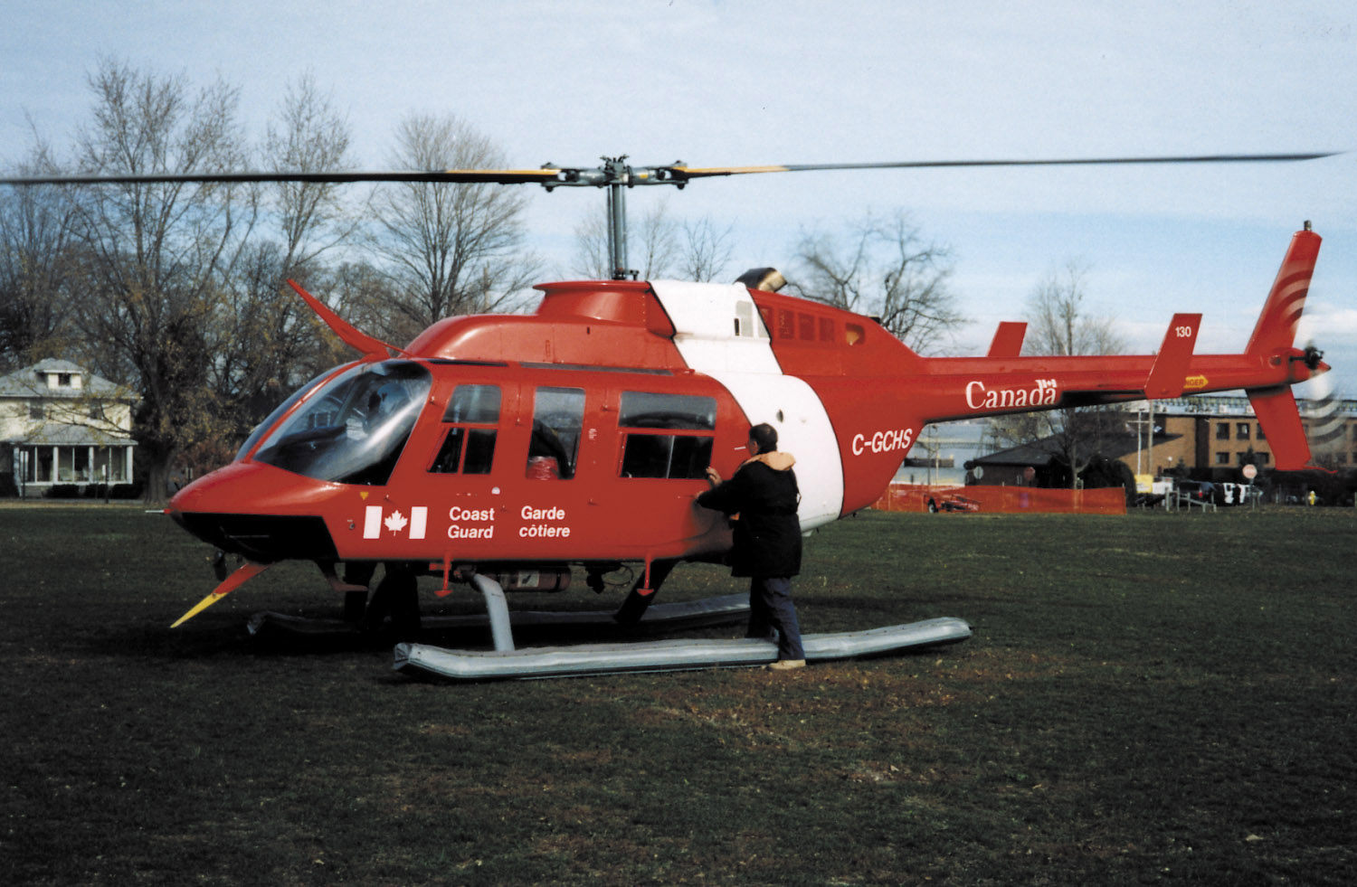 Marblehead, OH (Dec. 5) -- A Canadian coast guard helicopter lands at Station Marblehead to deliver a patient to rescues workers after he was found on a nearby island. U.S. COAST GUARD PHOTO